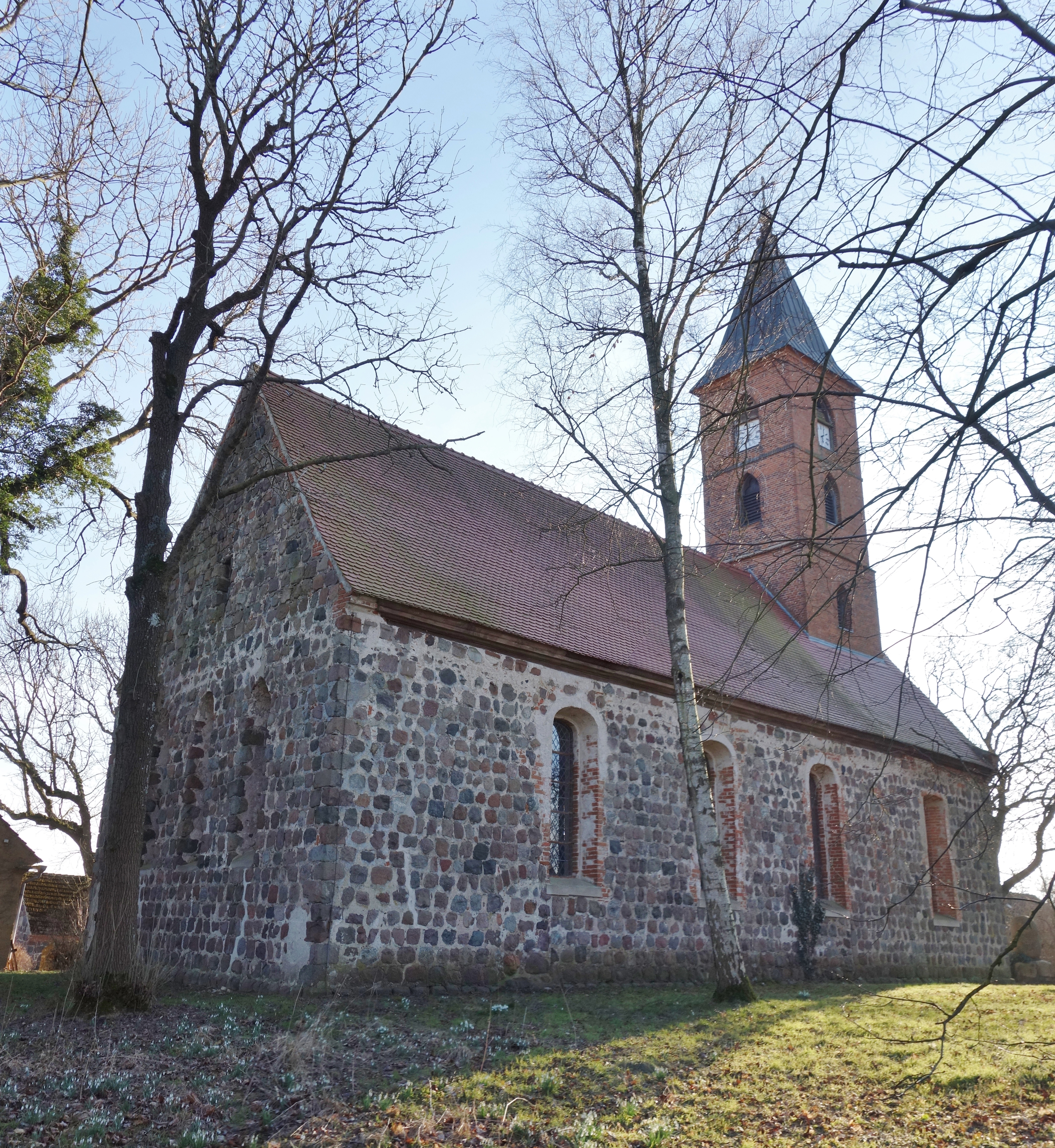 North-eastern view of the church in Wallmow , Carmzow-Wallmow municipality, Uckermark district, Brandenburg state, Germany